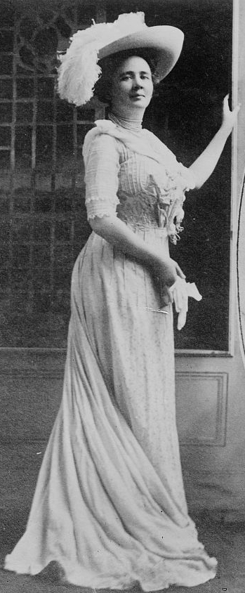 American activist Helen Dortch Longstreet (1863-1962), second wife of Confederate General James Longstreet.